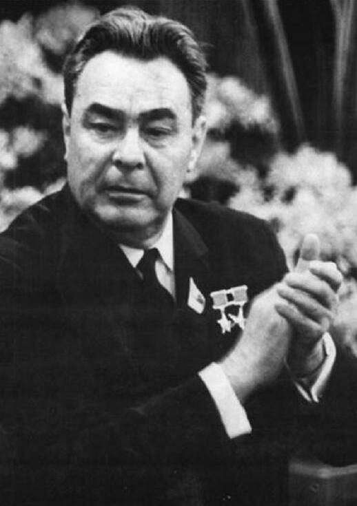 Leonid Brezhnev Portrait